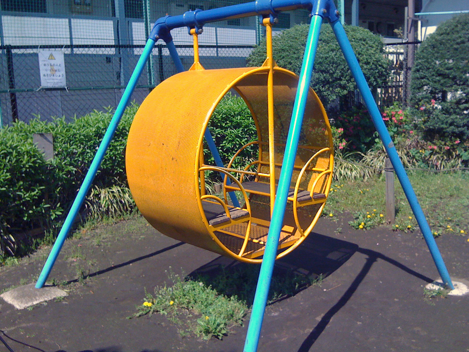 Posted via email from sharpen 箱ブランコ